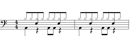 drum beat. 8beat. example.